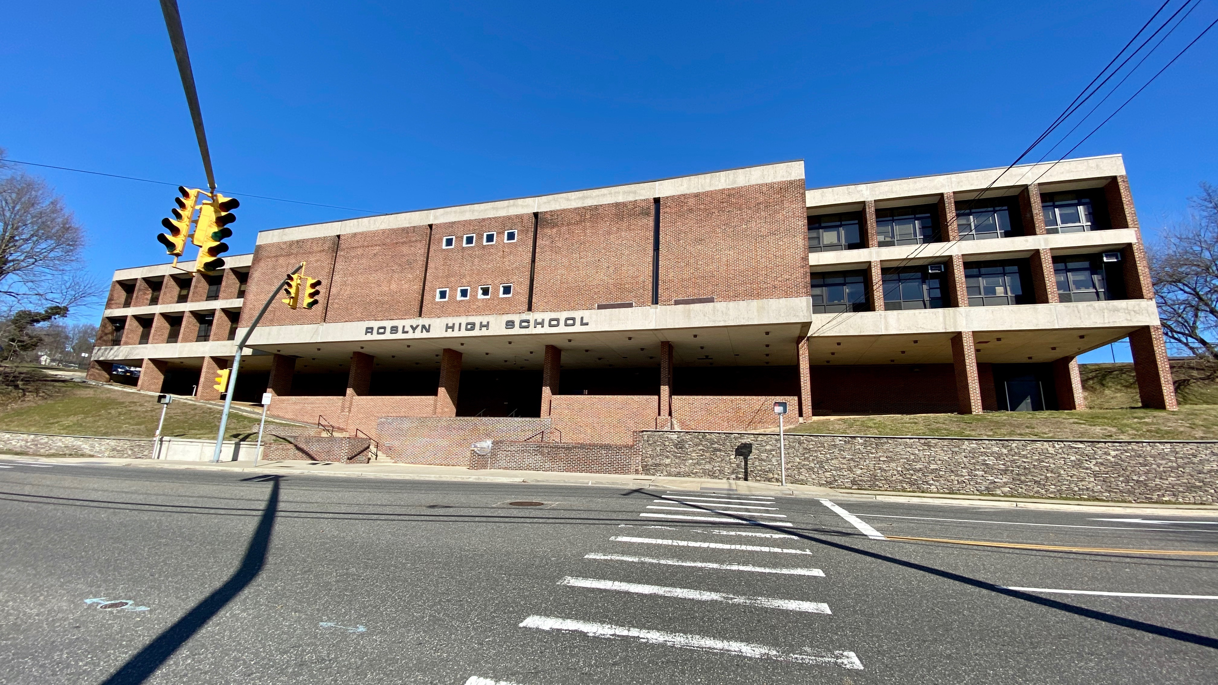 Roslyn High School, Roslyn Heights, New York, as viewed from the intersection of Roslyn Road and Lincoln Avenue